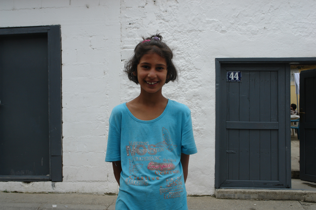 Roma girl in Prizren, Kosovo. Image taken by Charles Fred on flickr. The creator has granted GFDL licensing and permission for use in the wikimedia project.